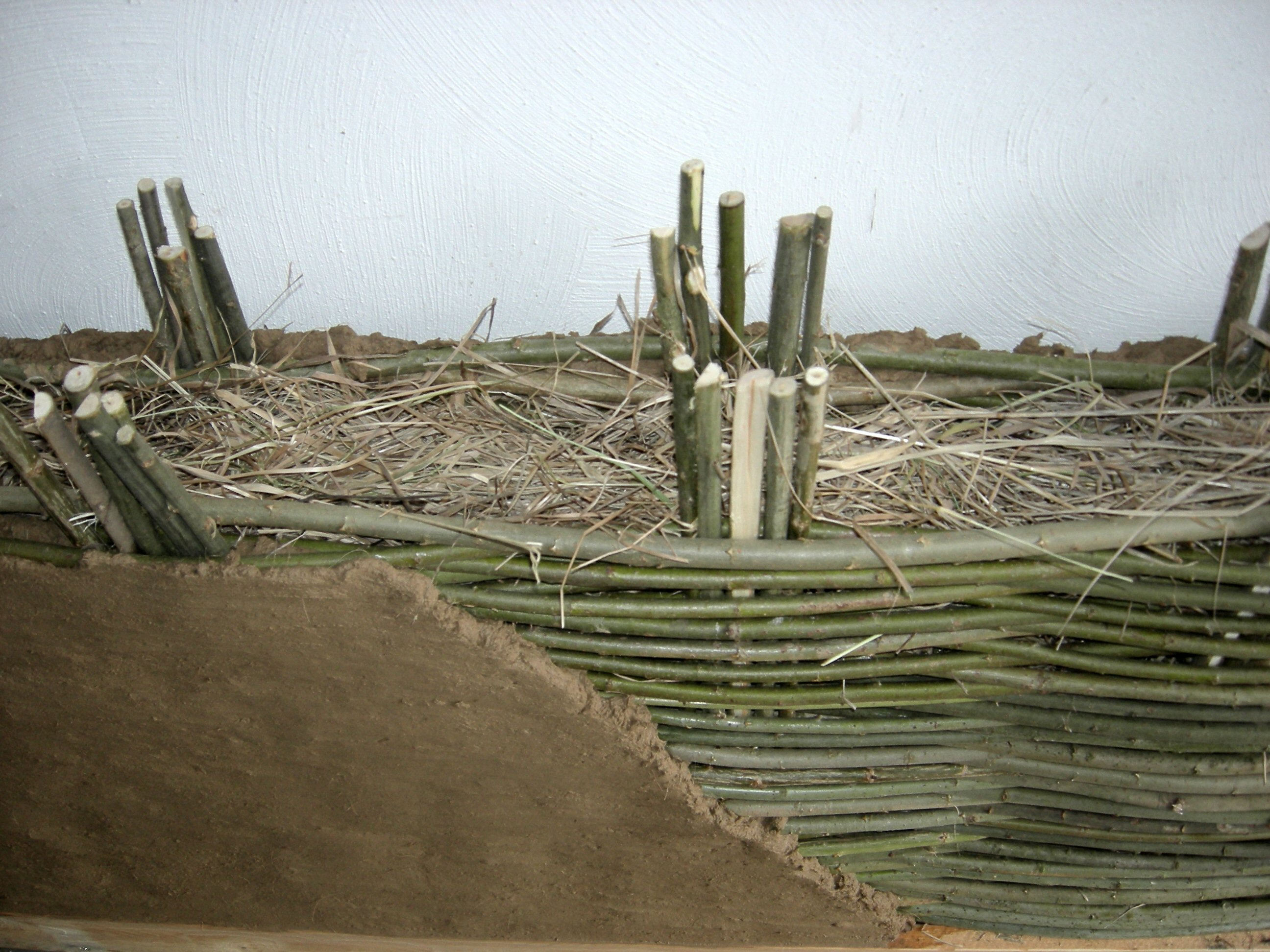 Wall of a Bronze Age House, reconstruction, photo H.-O. Schmitt